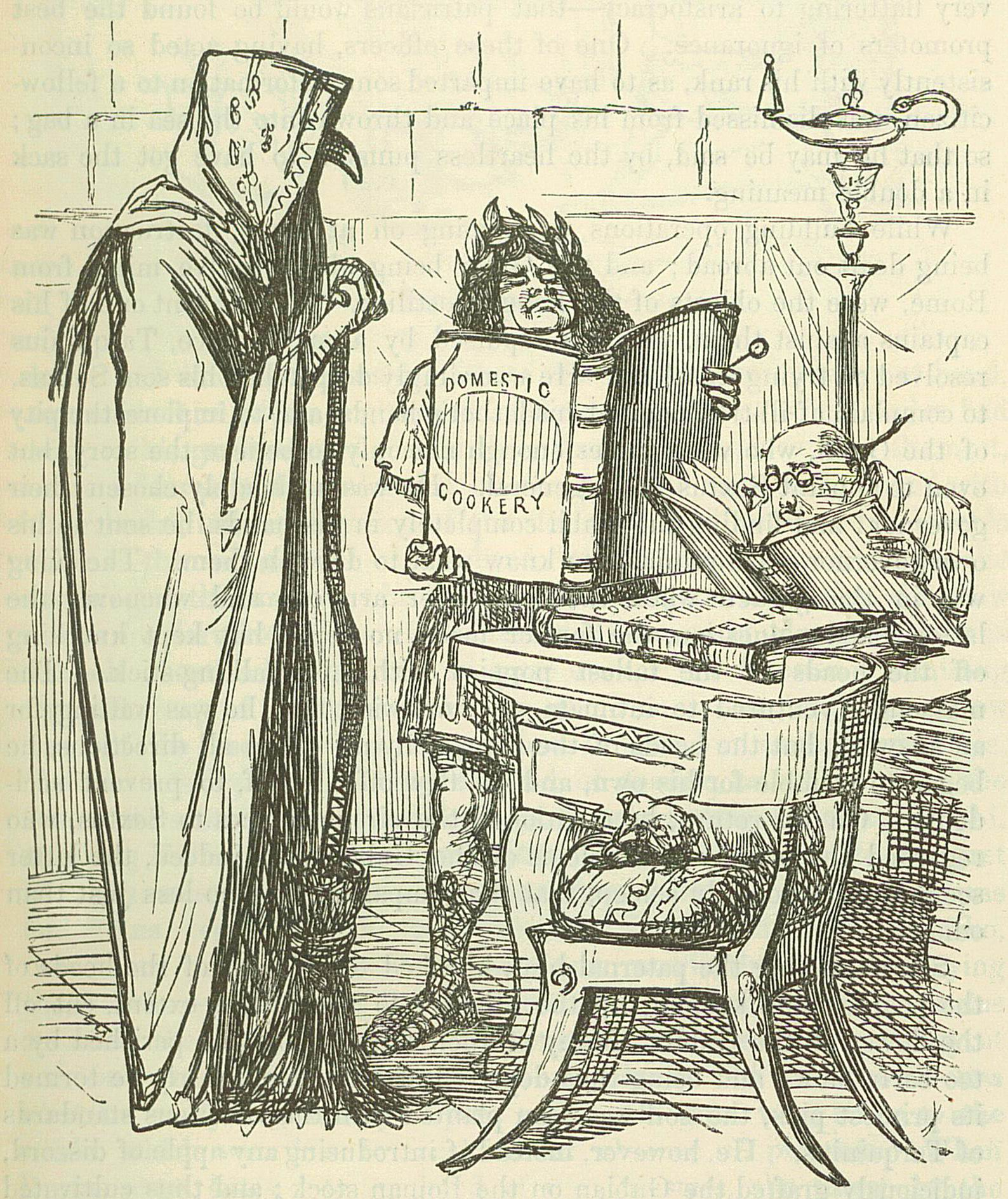 Image by John Leech, from: The Comic History of Rome by Gilbert Abbott A Beckett. Bradbury, Evans & Co, London, 1850s Tarquinius Superbus has the Sibylline Books valued